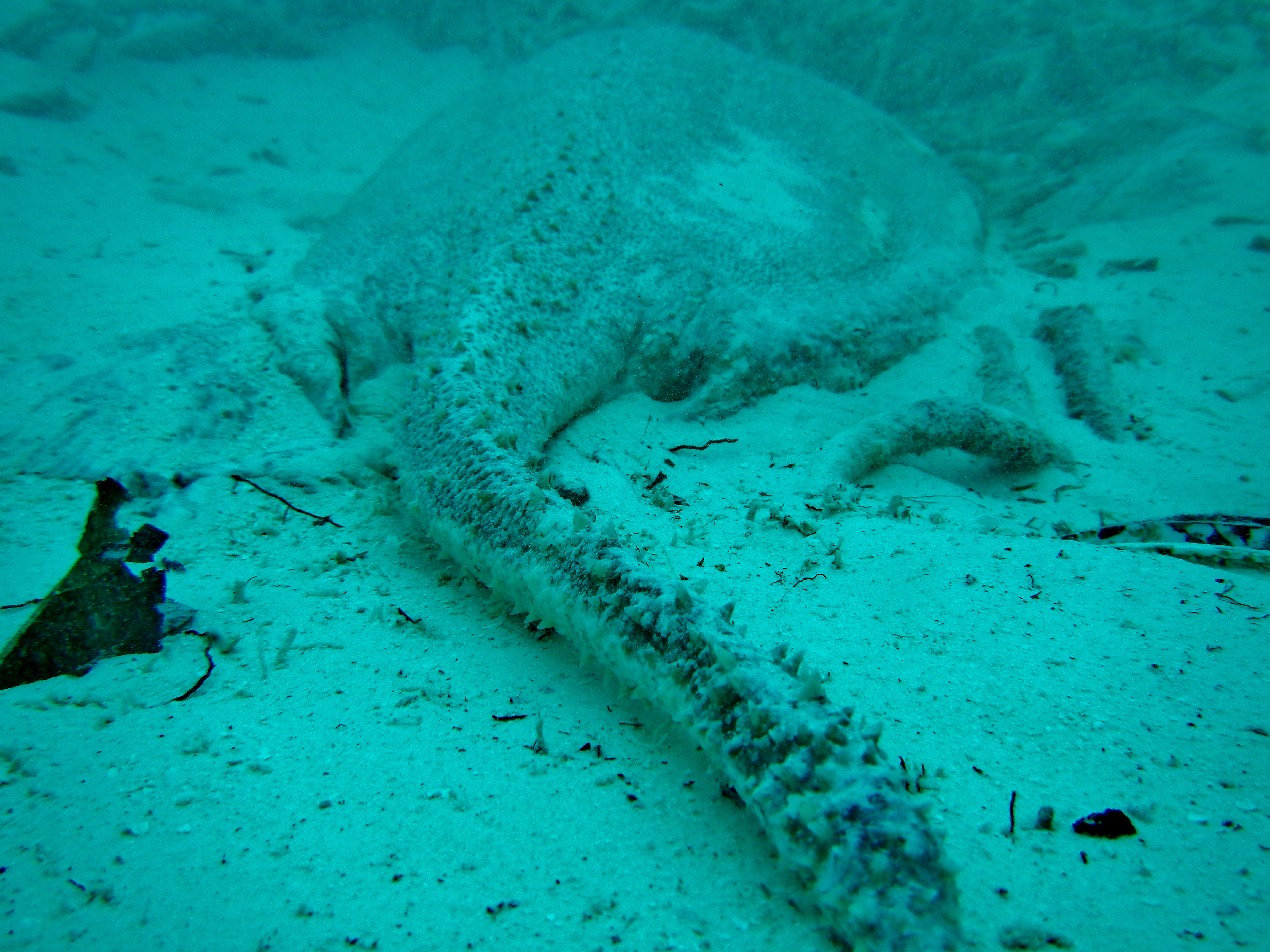 Close-up on the tail of a porcupine ray (Urogymnus asperrimus) in Maldives (Landaagiraavaru, Baa atoll).